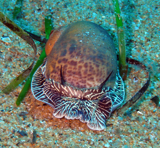 Naticarius hebraeus (Martyn, 1786) (synonym: Natica hebraea